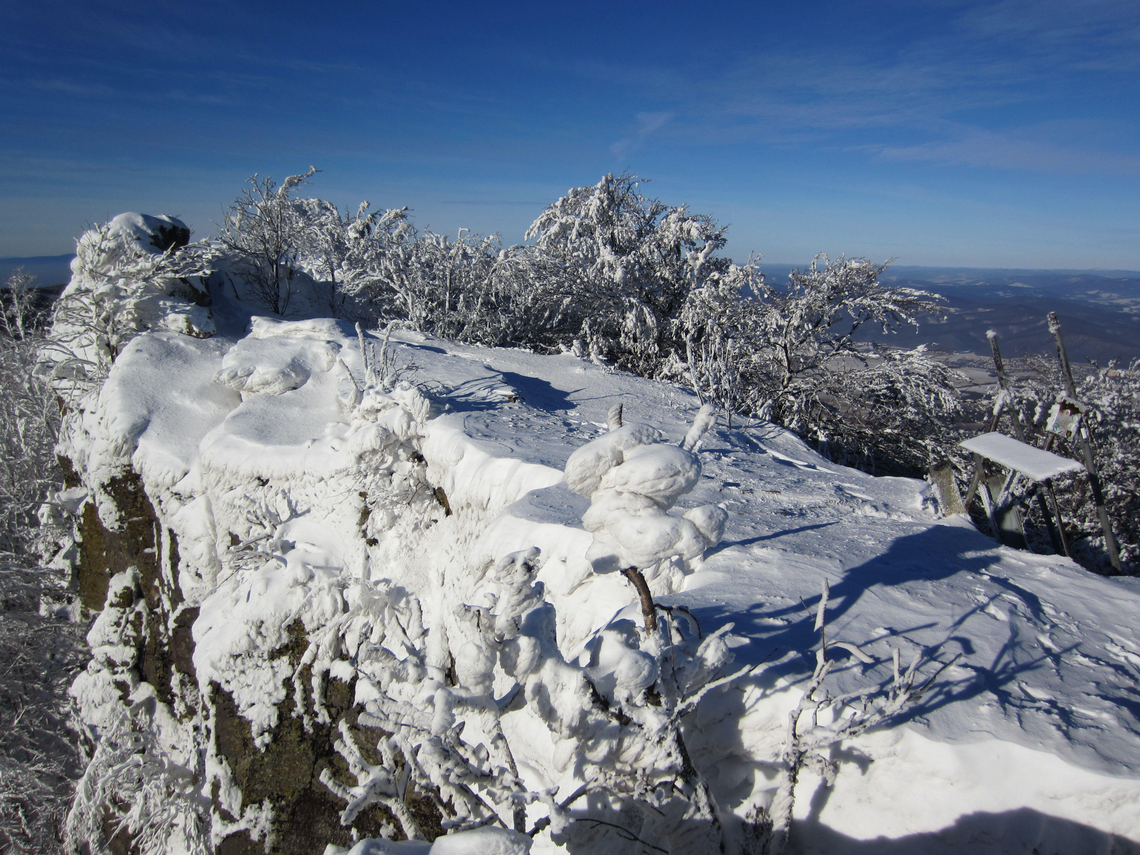 Sninský kameň in winter This is a photography of Natura 2000 protected area with ID SKUEV0209